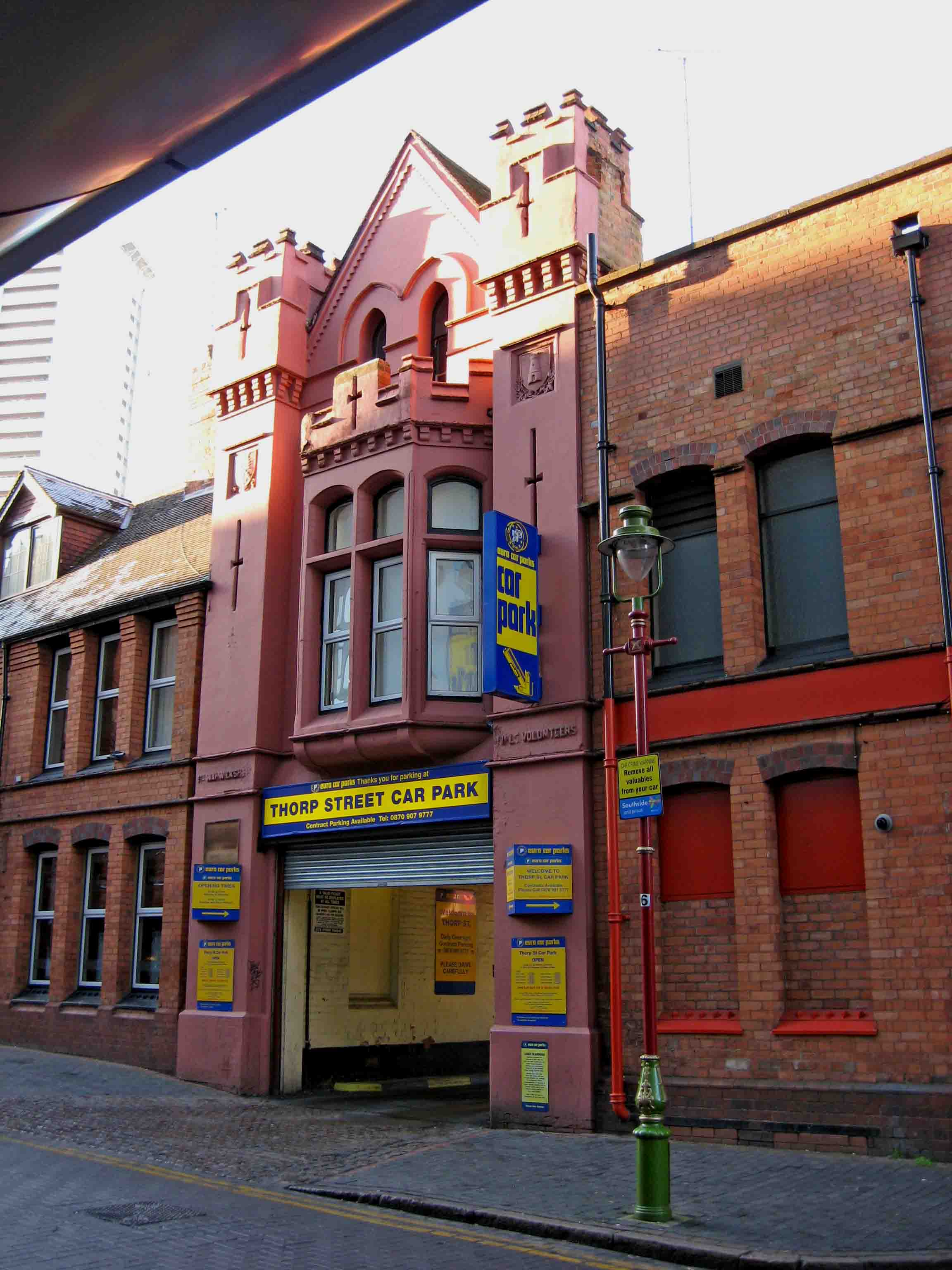 Thorp Street Car Park (formerly First Warwickshire Rifle Volunteers Barracks), 17 Thorp Street